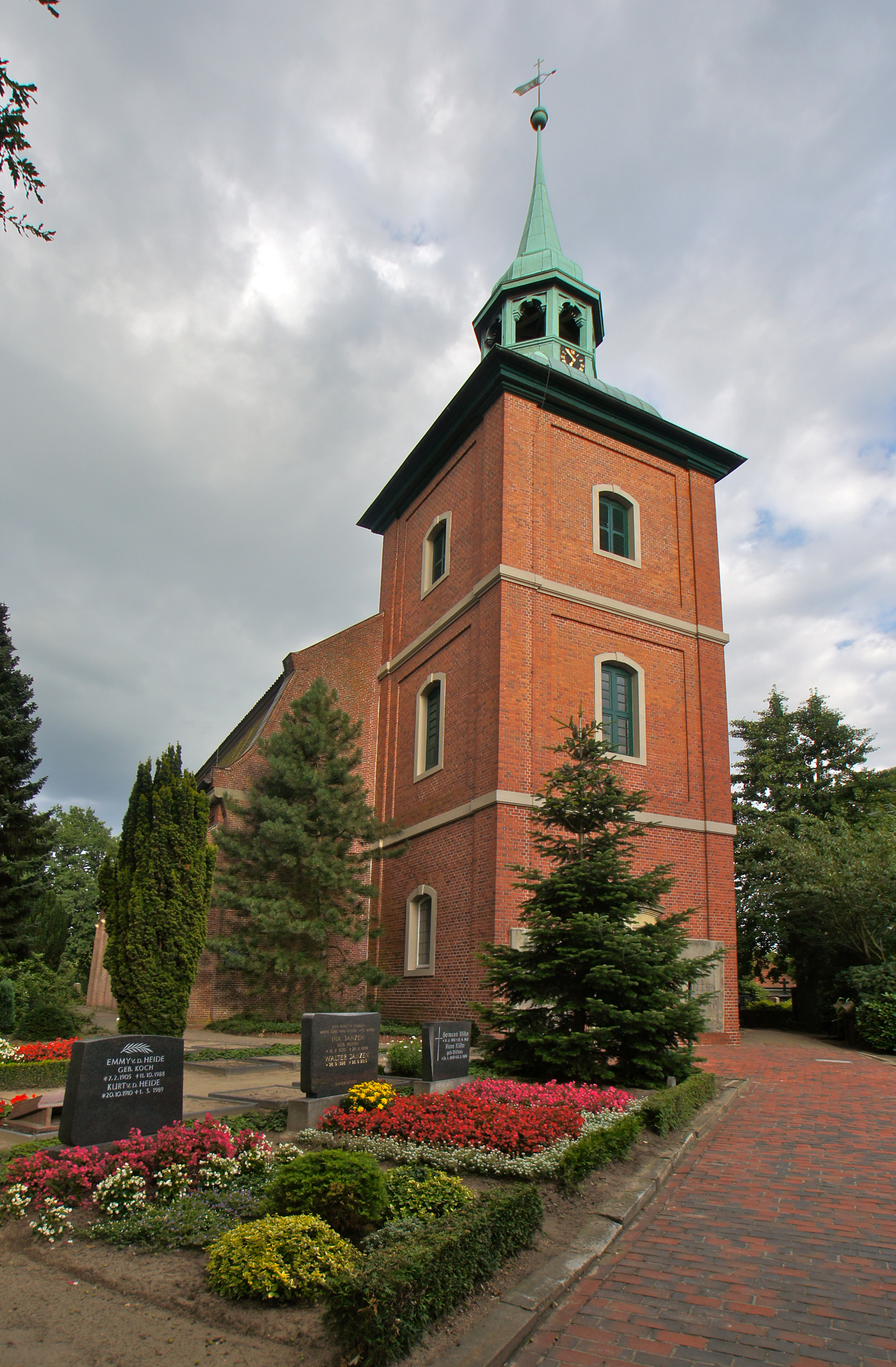 Hamburg (Ochsenwerder), Germany: Saint Pancras Church